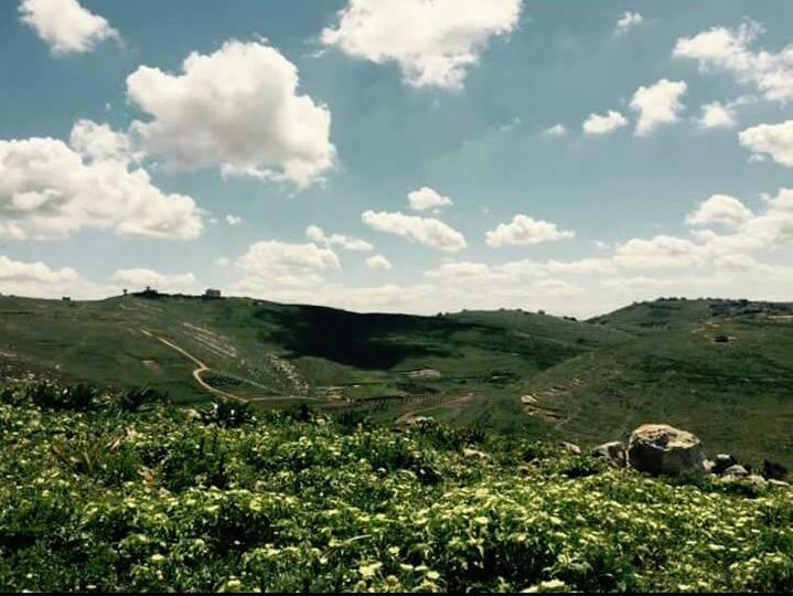 Village